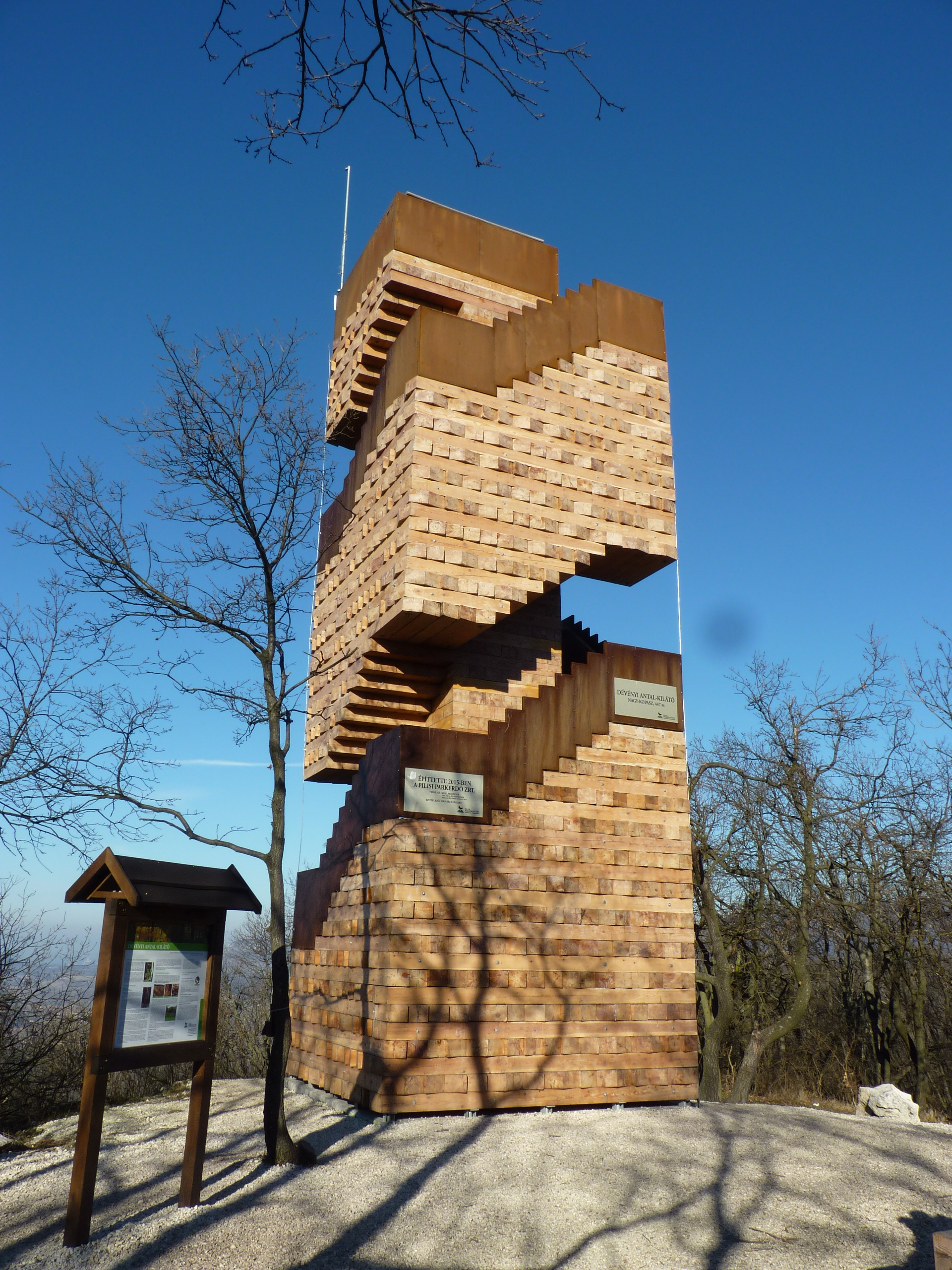 Antal Dévényi observation tower, Nagy-Kopasz Hill